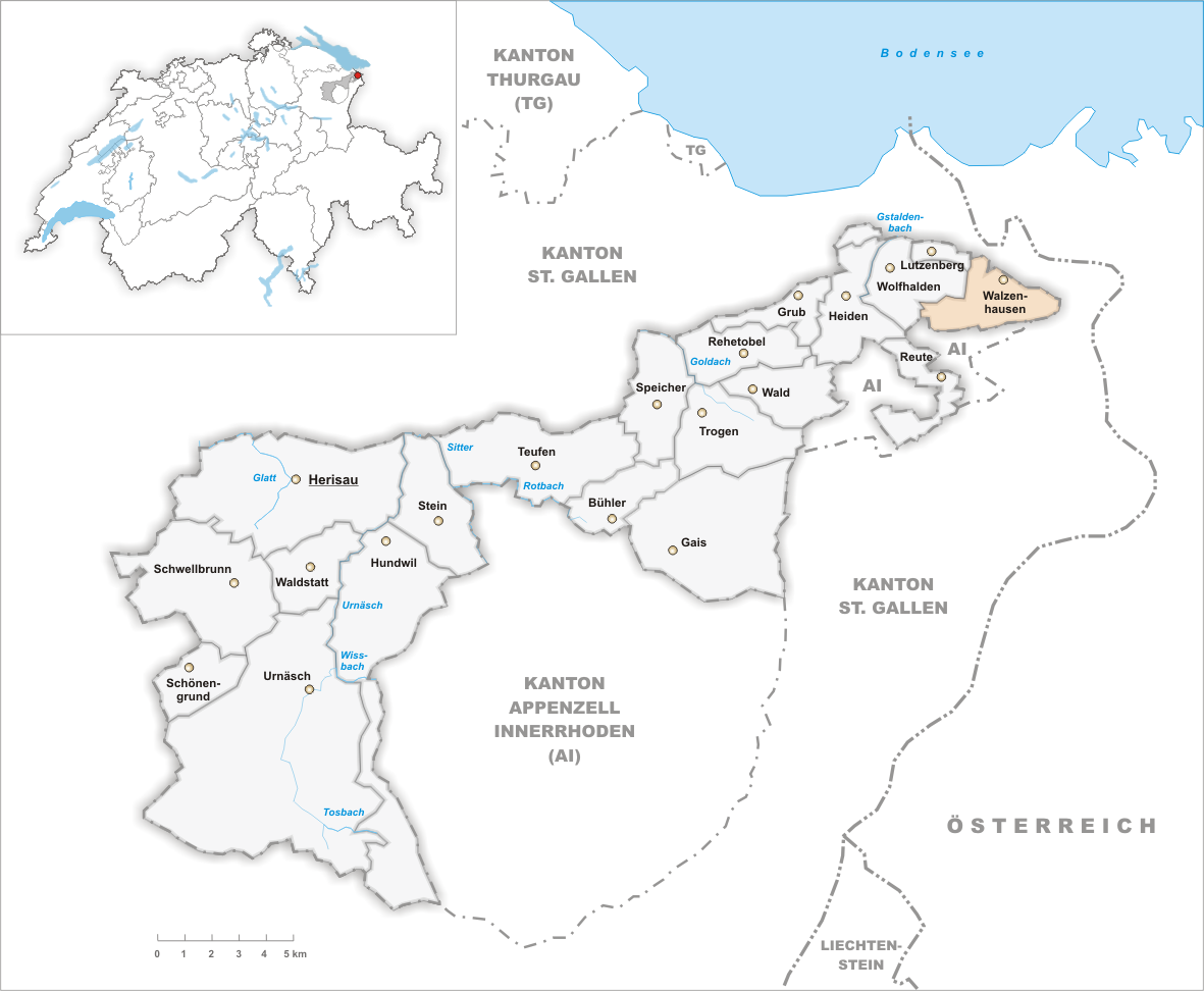 Municipality of Walzenhausen